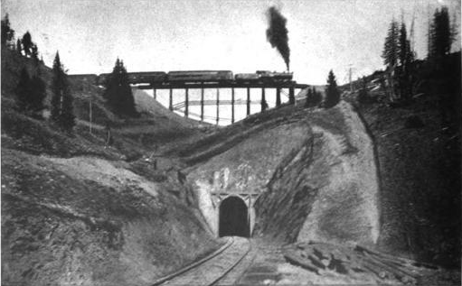 Original description: The road ascending the Continental Divide by doubling on its own track. Wikimedia description: A train ascends the now abandoned railway at Rollins Pass in Colorado, United States. The piece of the railway pictured is known as Riflesight Notch.